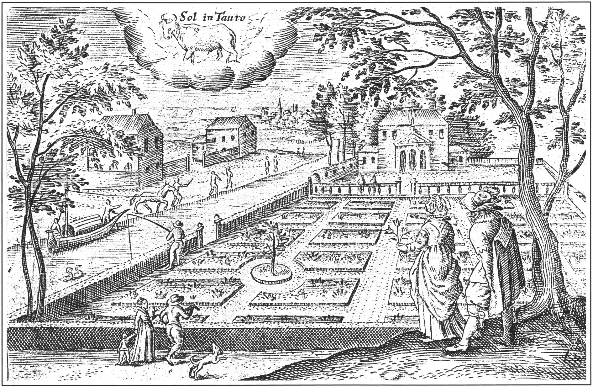 Aprilis, Aleksander Tarasowicz